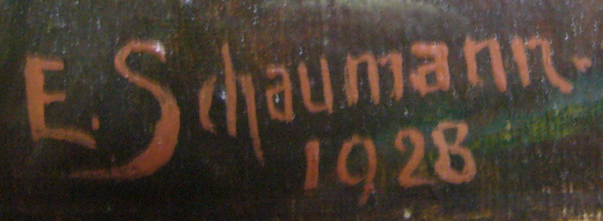 Signature by Ernst Schaumann (Maler), the Father, on "Heidelandschaft"